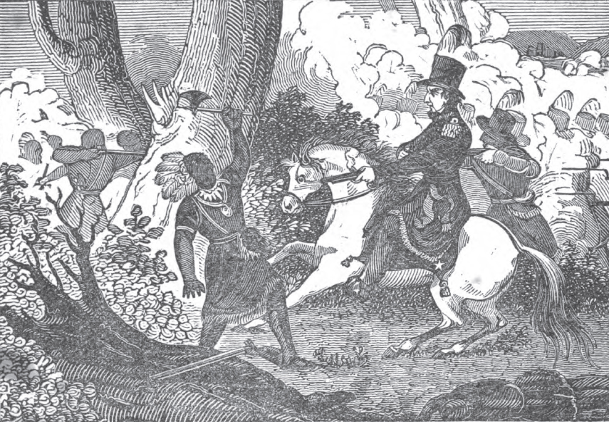 Sketch of Richard Mentor Johnson killing Tecumseh